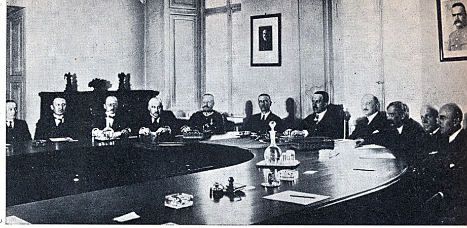 Official photo of Polish Government under Prime Minister Aleksander Skrzyński , beginning of 1926 ( till end of April that year)